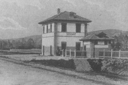 Sessant railway station